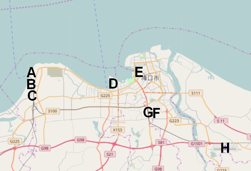 Transportation in the Haikou area showing: A: Haikou Port New Seaport B: South Port C: Haikou Railway Station D: Haikou Xiuying Port E: Haikou New Port F: Haikou Transportation Center (main bus station) G: Haikou East Railway Station H: Haikou Meilan International Airport This map of Hainan, China was created from OpenStreetMap project data, collected by the community. This map may be incomplete, and may contain errors. Don't rely solely on it for navigation.